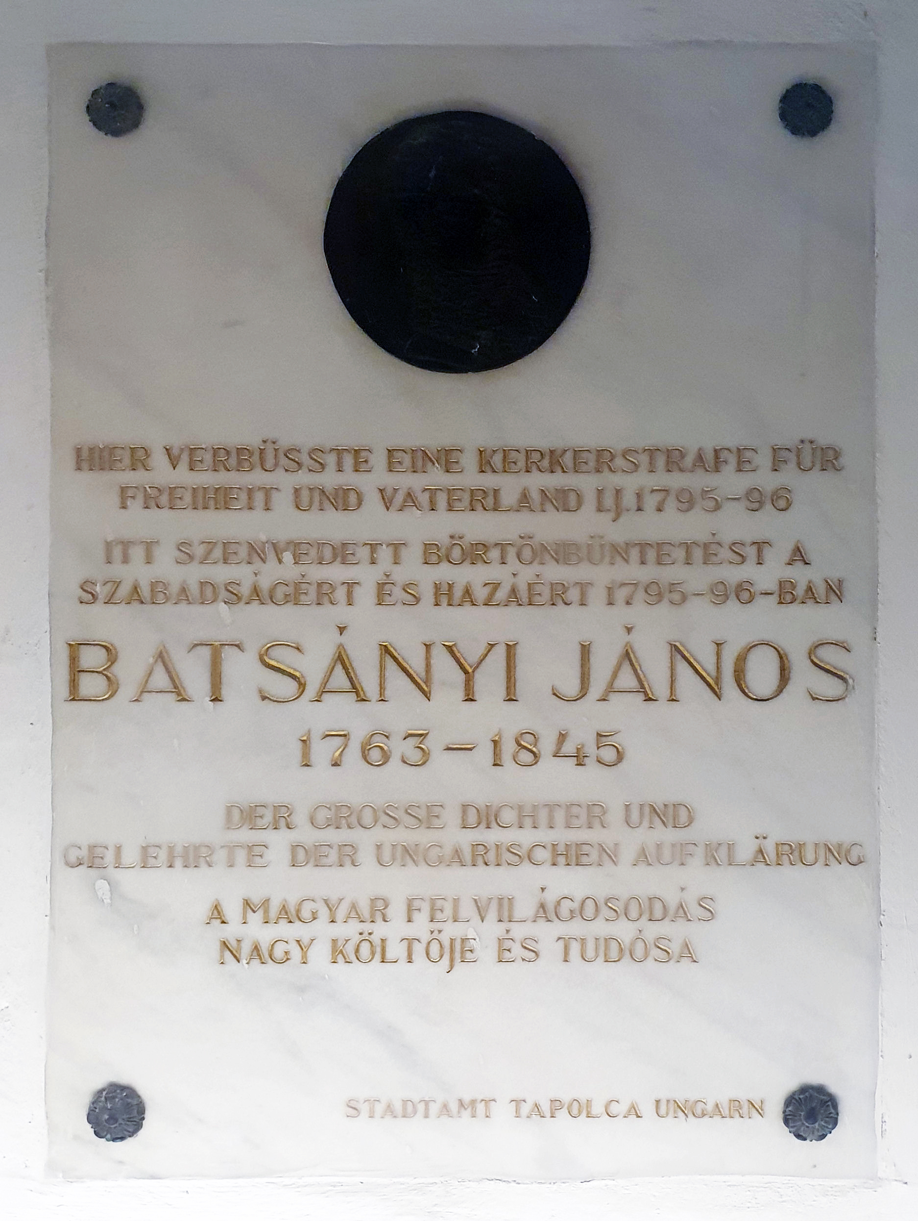 Memorial plaque, János Batsányi, Festung 2, Kufstein, Österreich